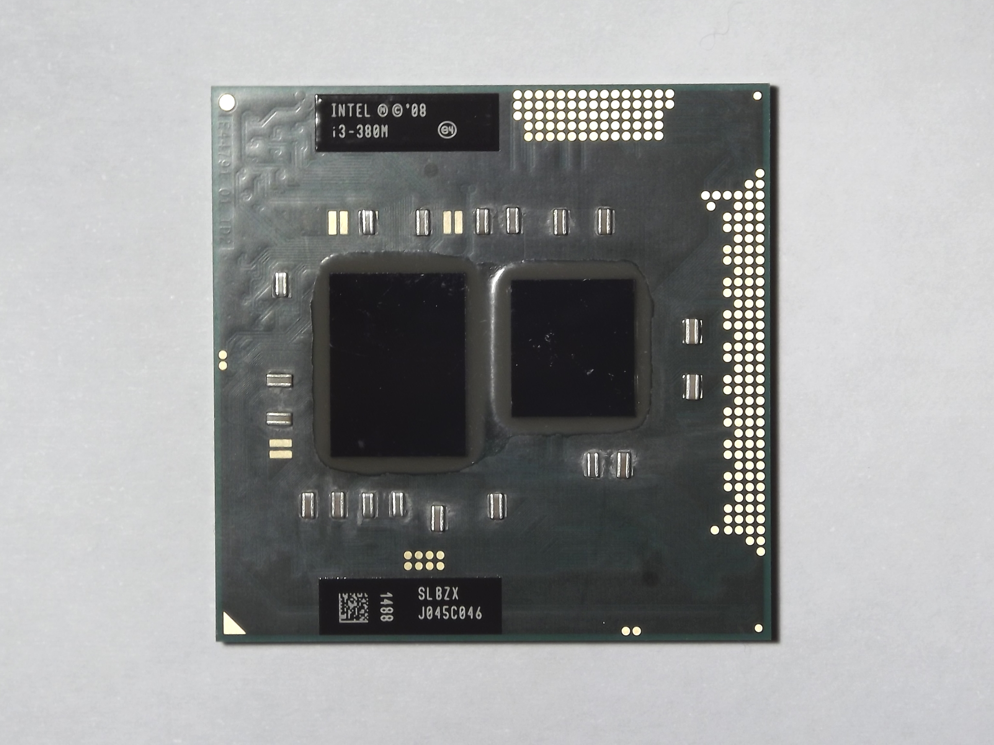 Intel Core i3-380M (first generation) compatible to socket G1 (PGA988a), 2.53 GHz